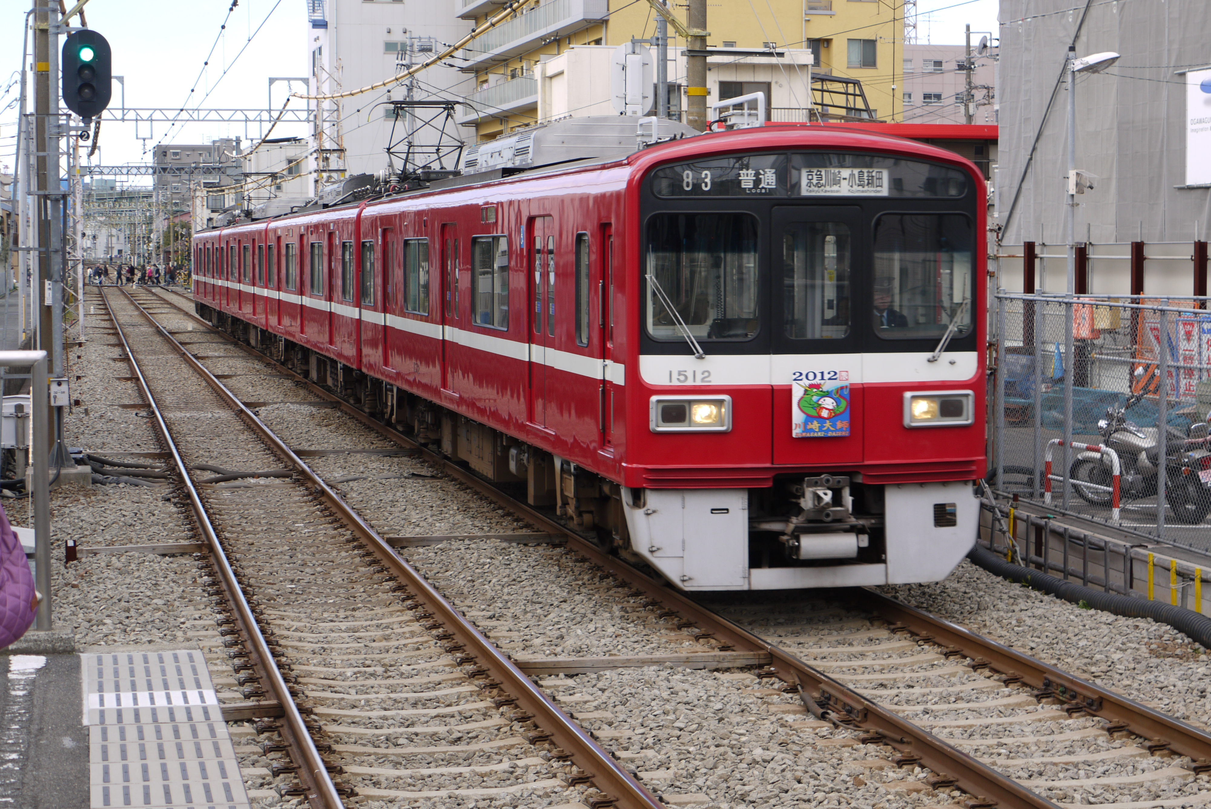 A Keikyu 1500 series 4-car train approaching Higashimonzen Station on the Keikyu Daishi Line